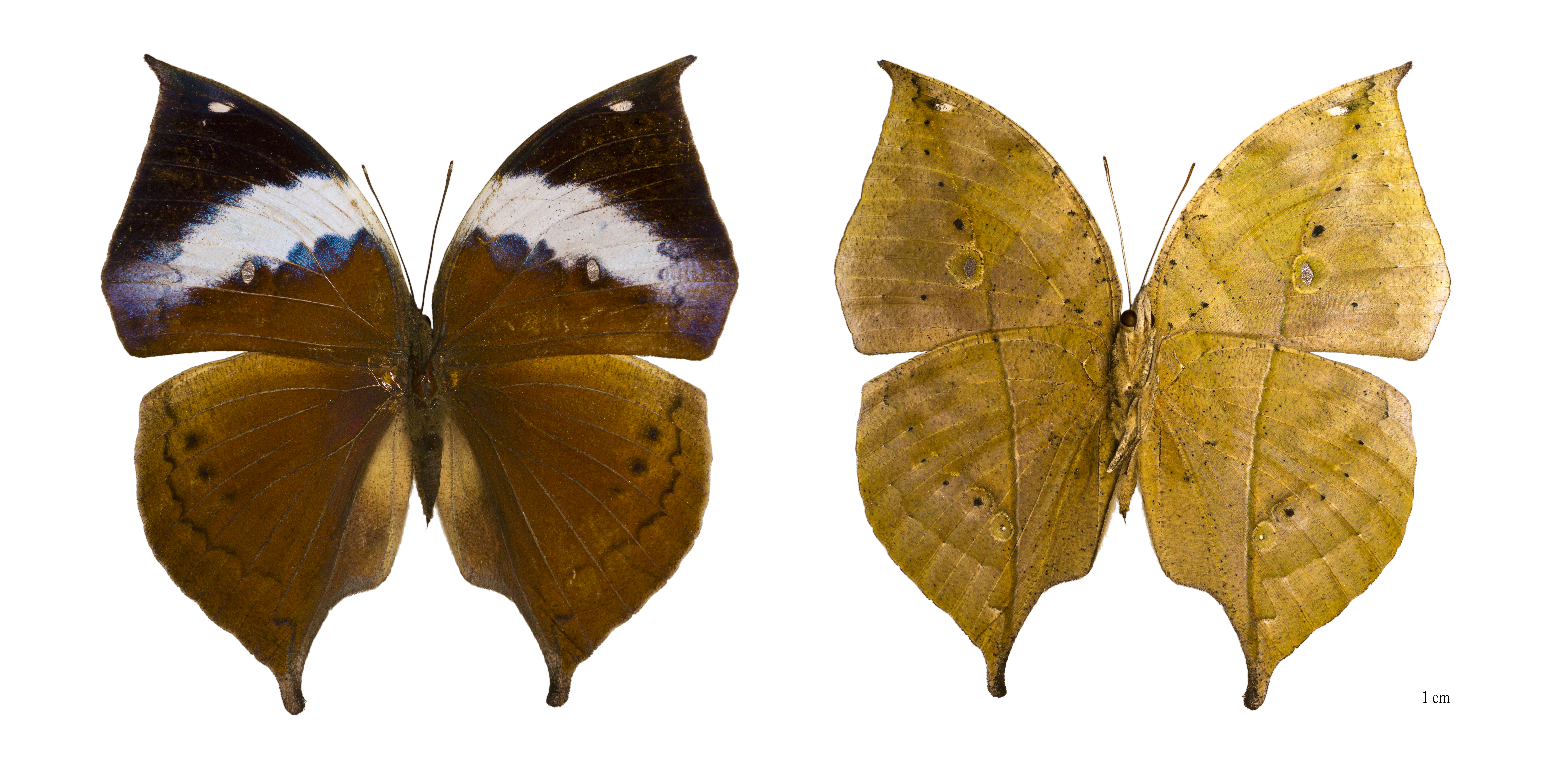 Female specimen - Two views of same specimen Locality: Barat, Jaca, Indonesia